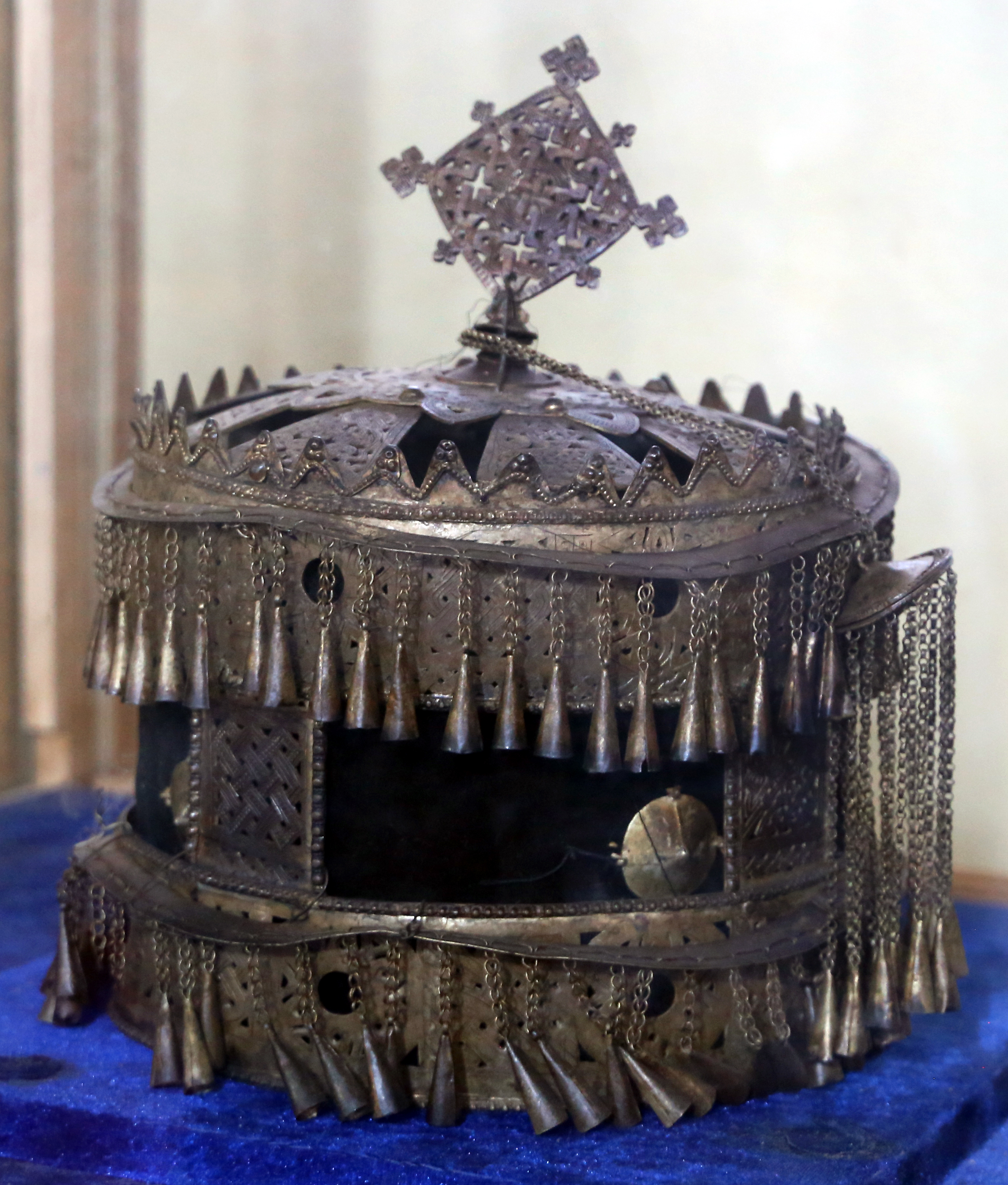 Ura Kidane Mehret - Museum